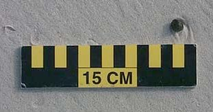 Image of a tarball on a beach in the Galapagos Islands with a size marker, taken from